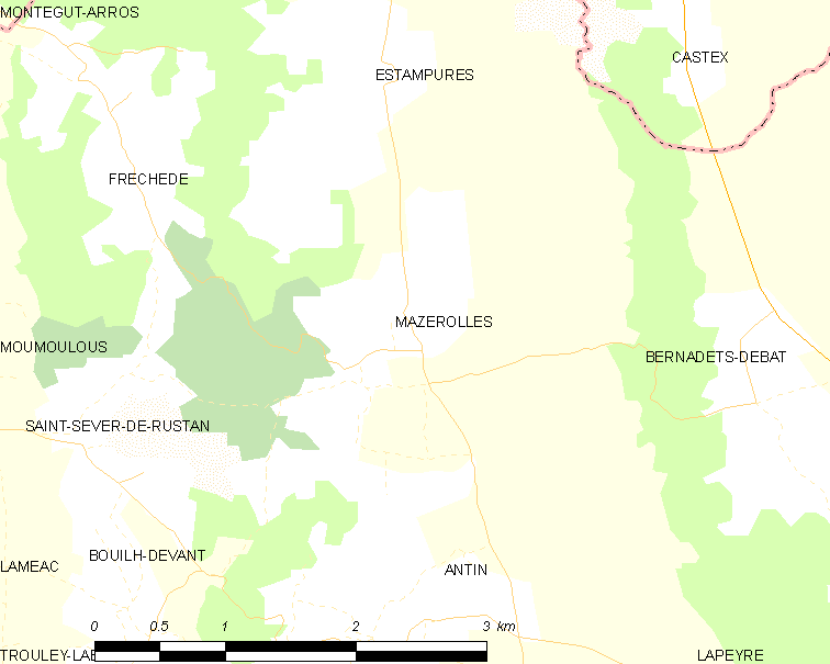 Map of French municipality